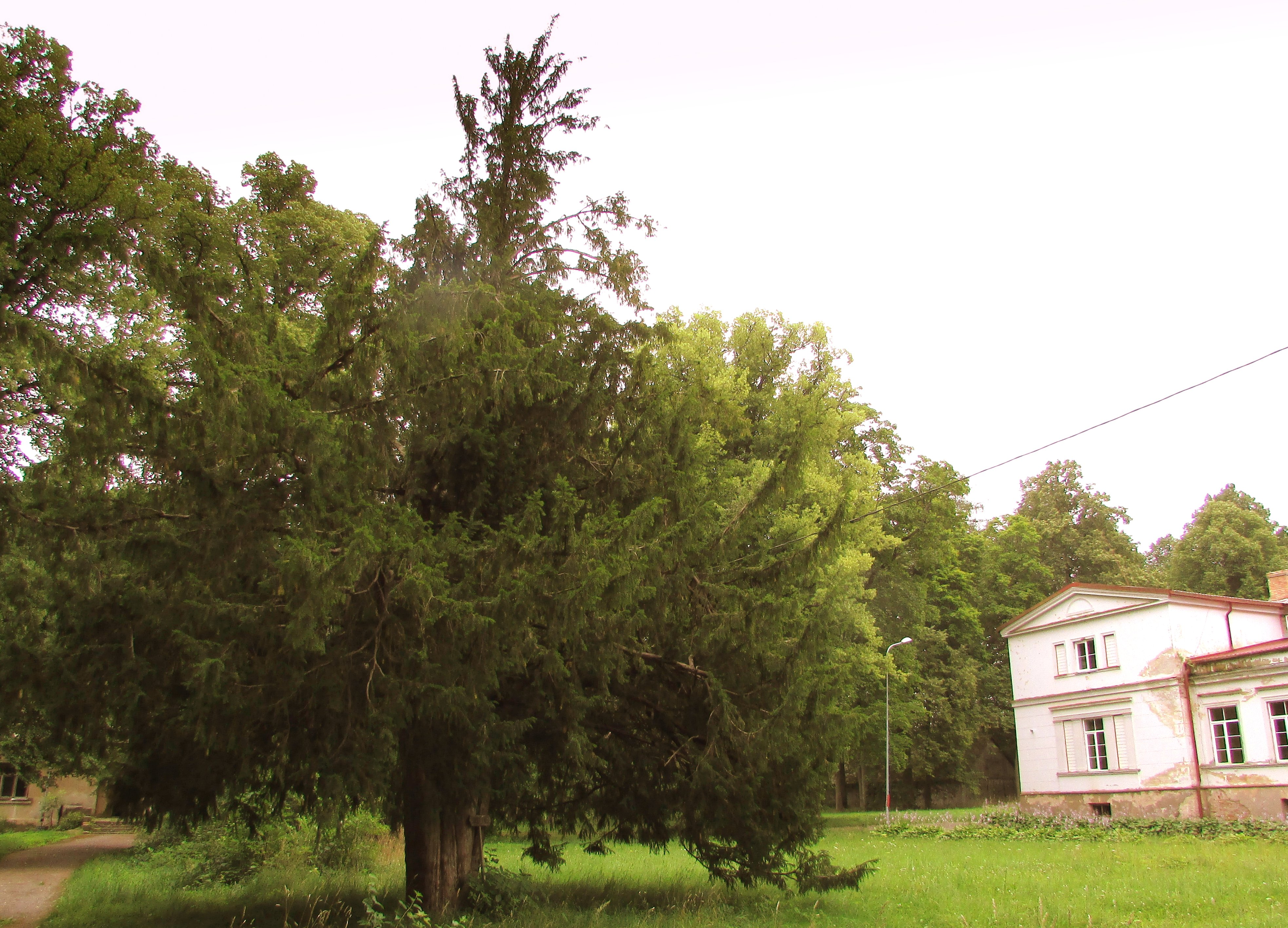 Biggest yew tree (Taxus baccata) in Latvia. Zentenes parish, Latvia